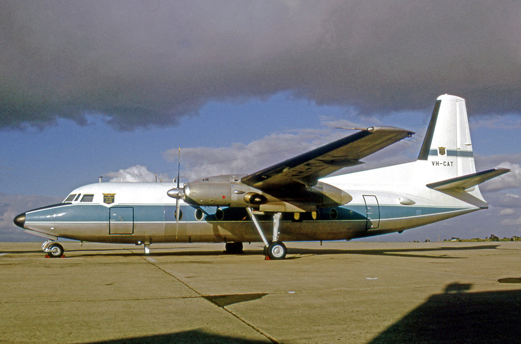 Fokker F.27 Friendship Series 100 of the Australian DCA at Melbourne Essendon in 1970